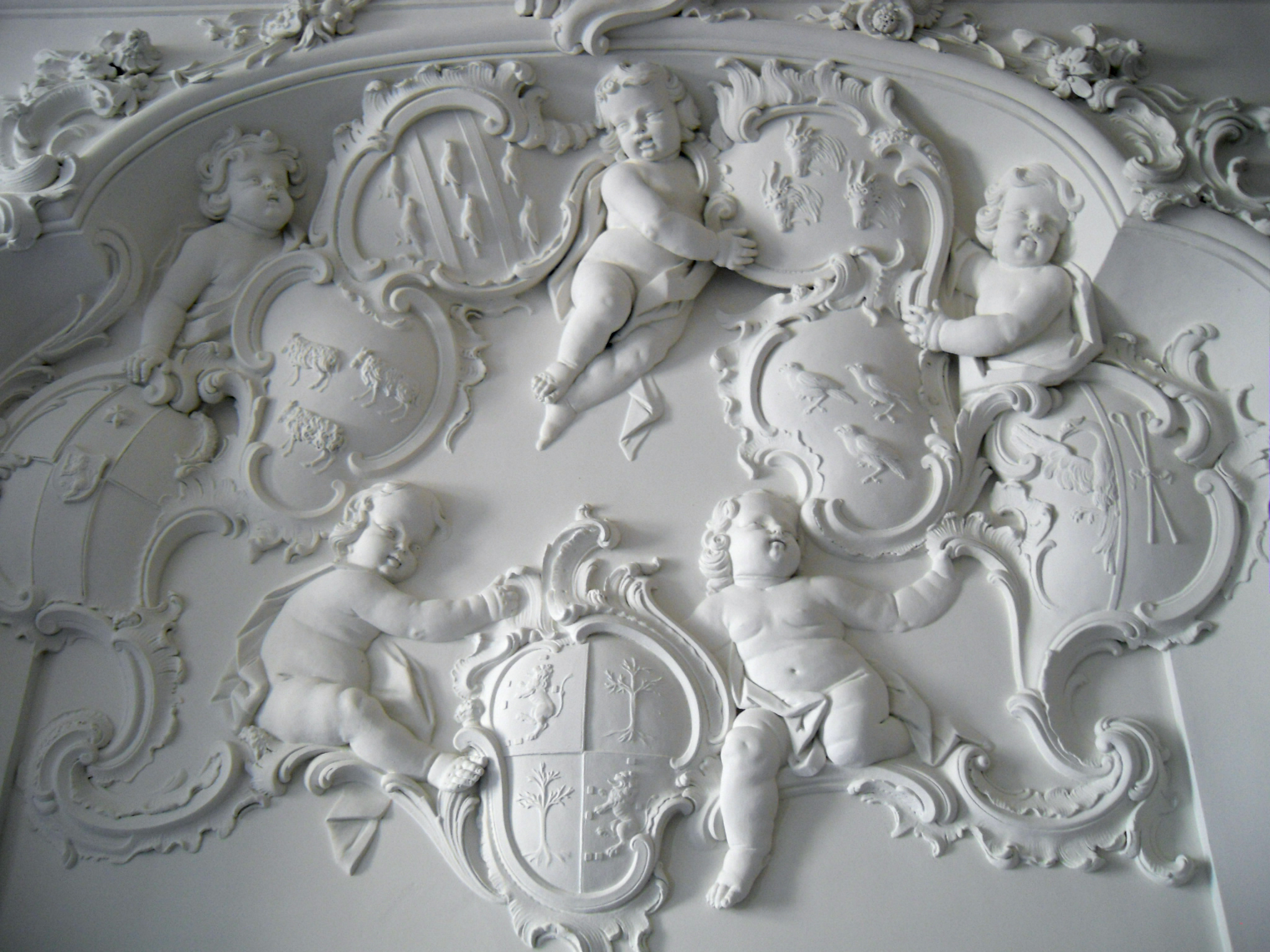 Stucco by Joseph Bollina in the hall of the Fundatie van de Vrijvrouwe Van Renswoude, Oude Delft 49 in Delft, Netherlands.